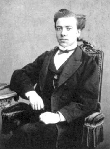 Photograph of the Danish-Finnish composer, conductor and organist Carl Theodor Sörensen (1846–1914).